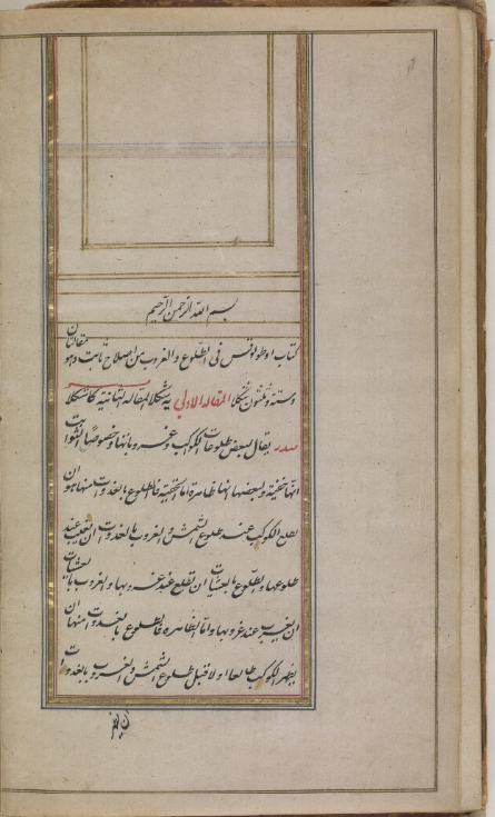 Arabic version of the De ortibus et occasibus (Περὶ ἐπιτολῶν καὶ δύσεων; في الطلوع والغروب [f. 87v, line 2, transcribed below] or في الطلوعات والغروبات [f. f. 109r, line 10, transcribed below]) by the astronomer, mathematician and geographer Autolycus of Pitane (Αὐτόλυκος ὁ Πιταναῖος; أوطولوقس; fl. 300 BC), revised by Thābit ibn Qurrah (ثابت بن قرة; d. 901) and presented here in the edition of Naṣīr al-Dīn al-Ṭūsī (d. 1274).